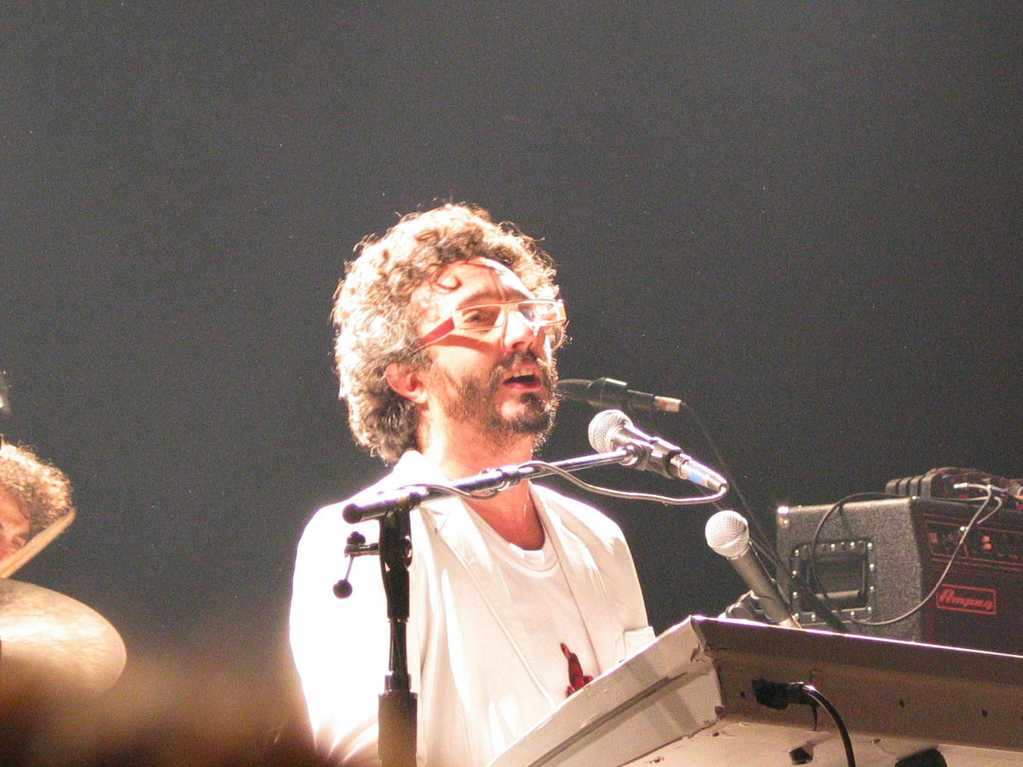 Fito Páez. Fito Paez, 2003.